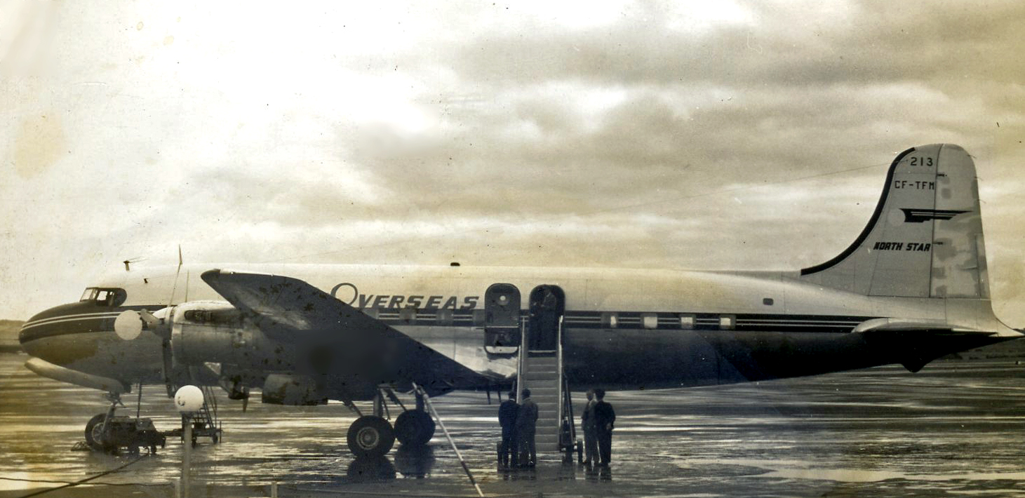 British Overseas Airways Corporation North Star (CF-TFM), Prestwick, 1960